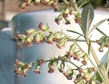 Artemisia princeps also known as "Japanese Mugwort"